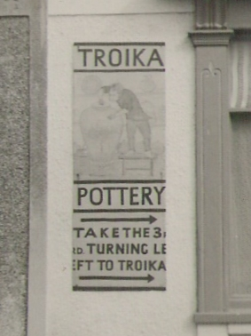 Photograph of Troika sign affixed to 1 Island Road St Ives, home of Peggy Frank, mother of Caroline Illsley co-founder of Troika Pottery.